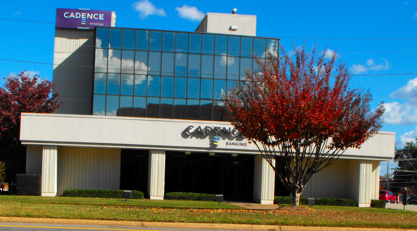 Cadence Bank in downtown Tuscaloosa, AL